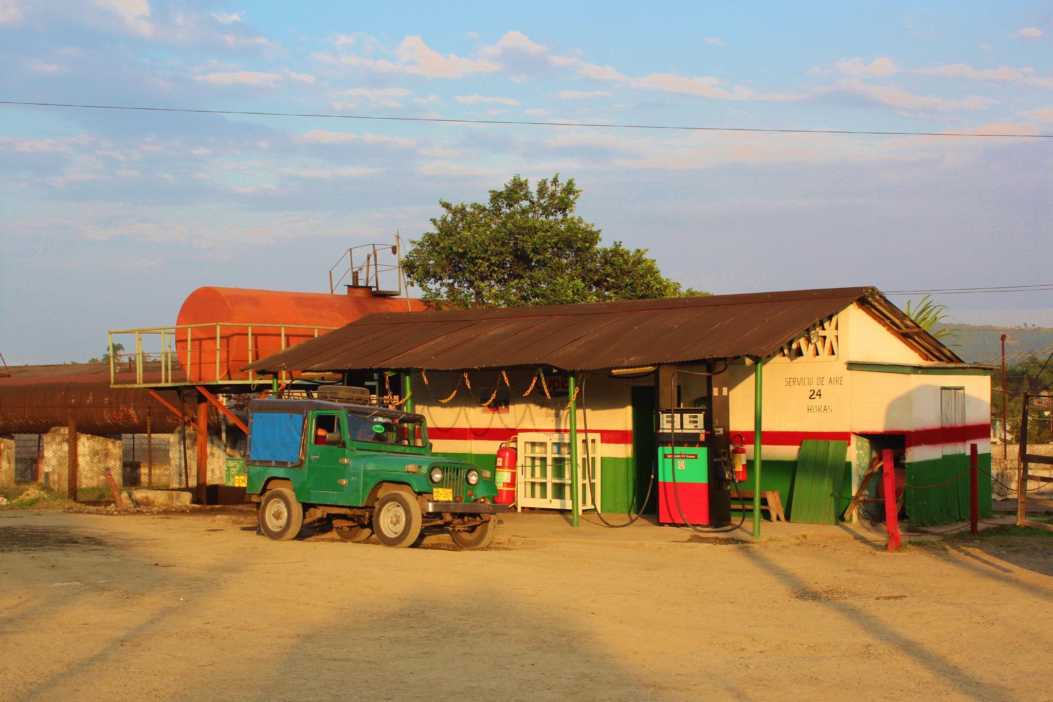 A gas Station in Sagua de Tanamo